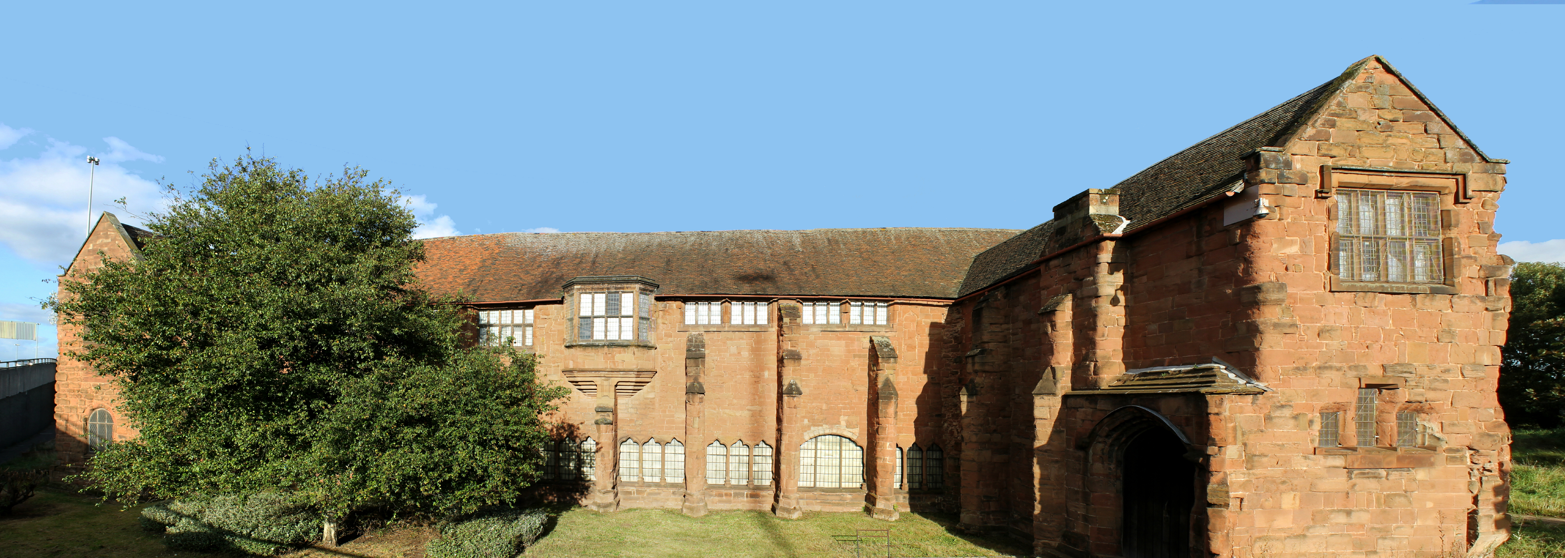 The remaining cloister building of Whitefriars, Coventry.